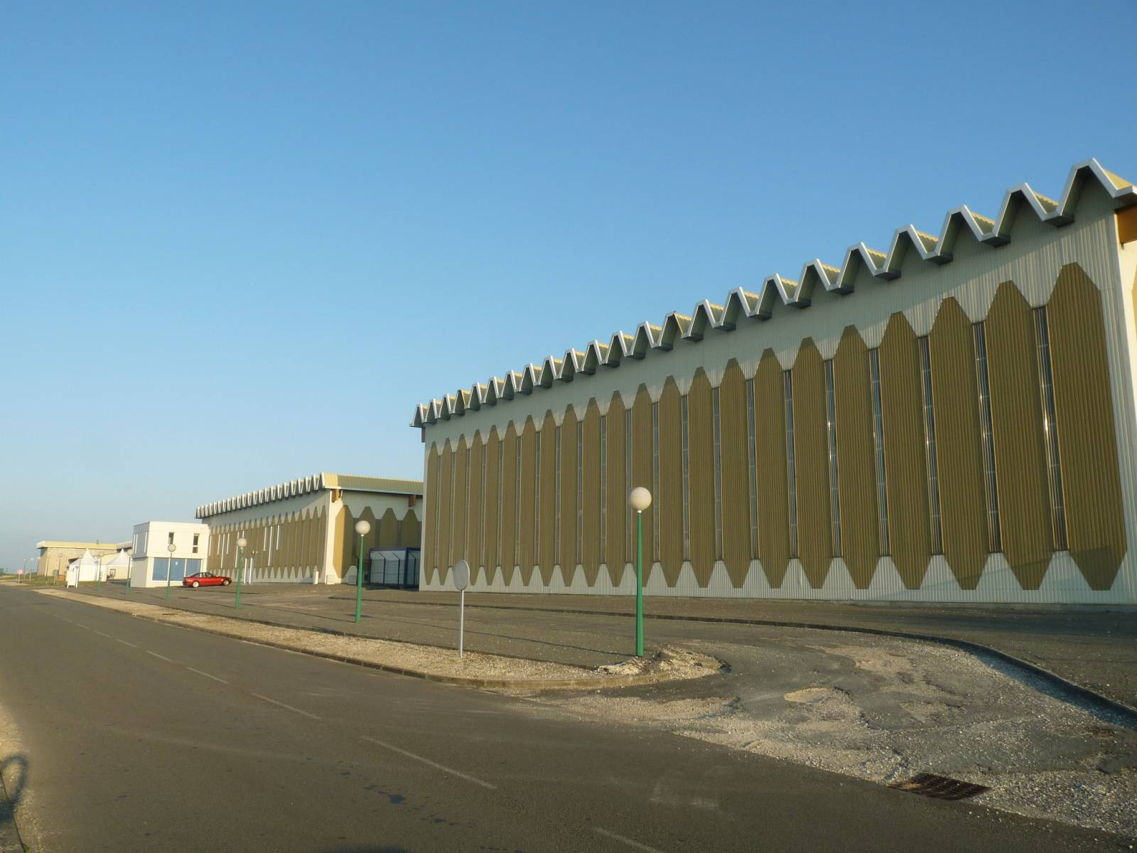 Angoulême-Cognac Airport, Charente, SW France